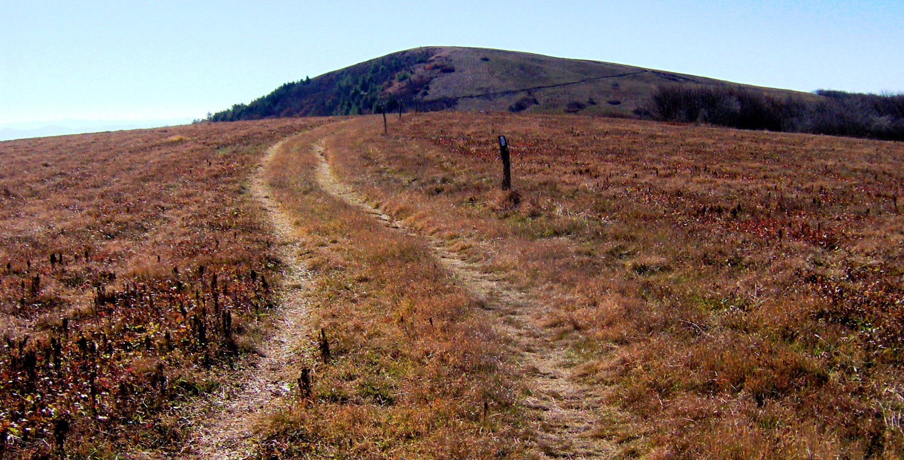 The Appalachian Trail approaching the summit of Big Bald in the Bald Mountains of the U.S. states of Tennessee and North Carolina. The posts are adorned with the trail's characteristic white blaze.